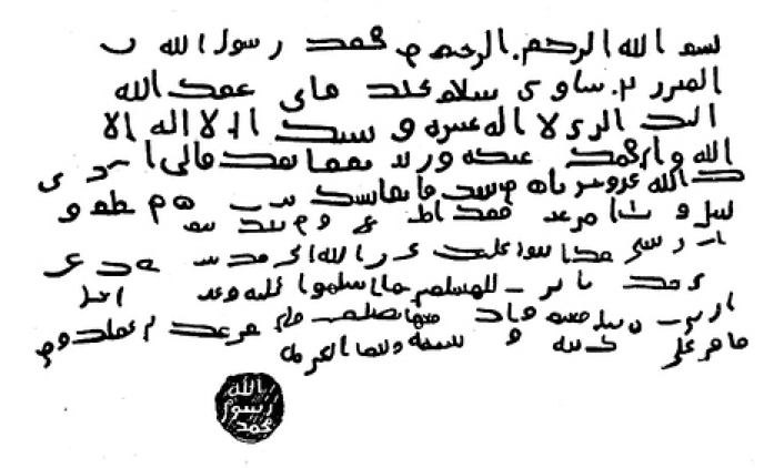 facsimile of a letter sent by Muhammad to the Munzir Bin Sawa Al Tamimi, governor of Bahrain. The letter's text translates to (unverified translation) In the name of God, the Compassionate, the Merciful. From Muhammad, messenger of God, to Munzir bin Sawa. May peace be on you! I praise God, who is One and there none to be worshipped but except him. I bear evidence to the Oneness of God and that I am a servant of God and his messenger. Thereafter I remind you of God. Whoever accepts admonition does it for his own good. Whoever followed my messengers and acted in accordance their guidance; he, in fact, accepted my advice. My messengers have highly praised your behavior. You shall continue in your present office. You should remain faithful to God and his messenger. I accept your recommendation regarding the people of Bahrain. I forgive the offences of the offenders. Therefore, you may also forgive them. Of the people of Bahrain, whoever want to continue in their Jewish or Majusi faith, should be made to pay Jizya. The seal imprint reads Allah[i] rasul[u] Muhammad ("God's messenger, Muhammad).